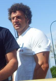 The former Italian rugby union player Gianluca Faliva in 2009